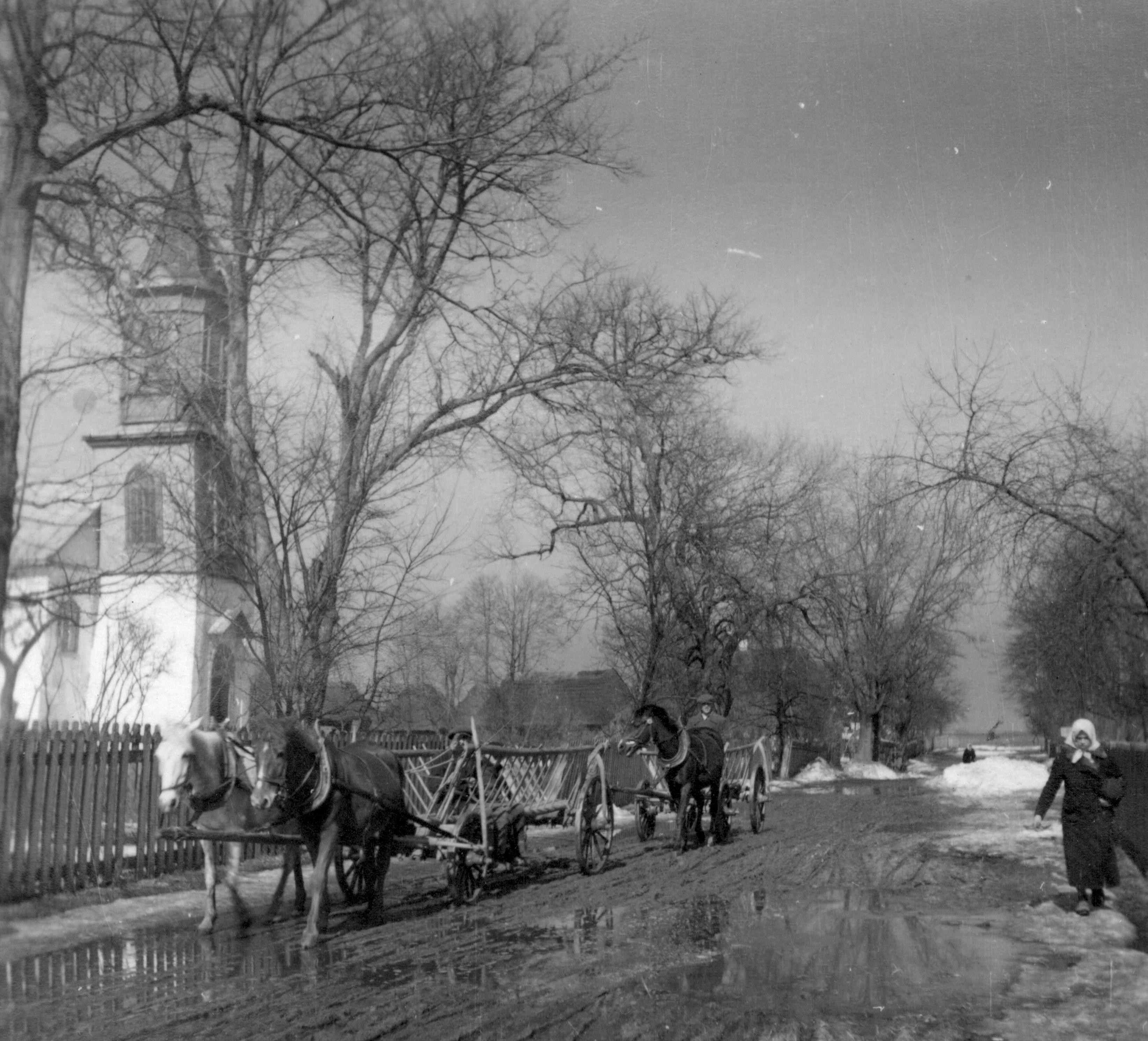 Ranischau/Raniżów in World War 2, Lutheran church to the left